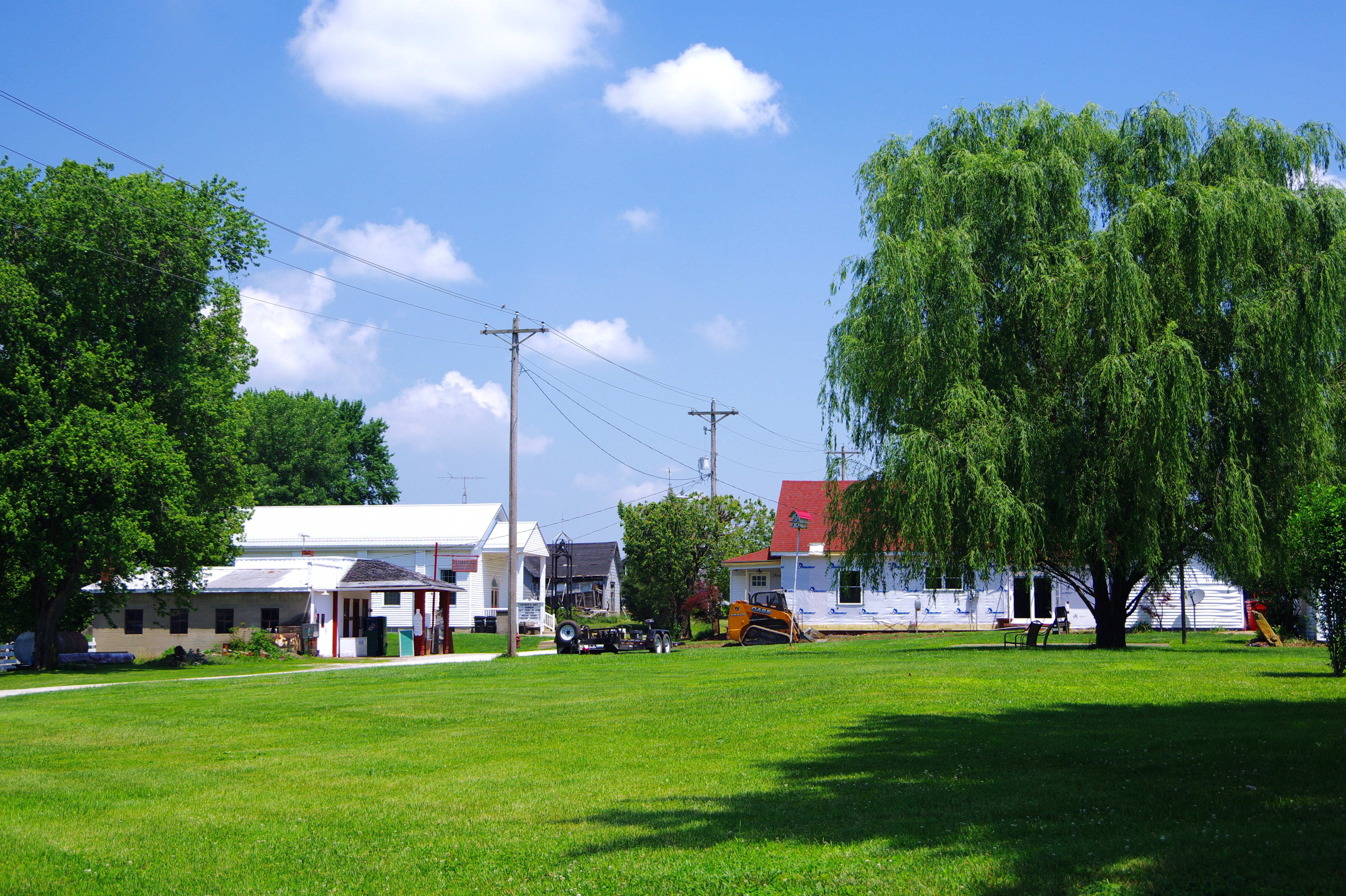 Buildings along Church Street in Alfordsville, Indiana, United States.